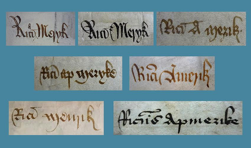 Variants of Richard Amerike's name, as found in contemporary documents referring to the customs official. The first names are abbreviations of the latin forms for Richard; the surnames read: a Meryk, Meryk, a merik, ap meryke, Amerik, meurik, and Apmerike: Evan T. Jones and Margaret M. Condon, Cabot and Bristol's Age of Discovery: The Bristol Discovery Voyages 1480-1508 (University of Bristol, Nov. 2016), p. 75.